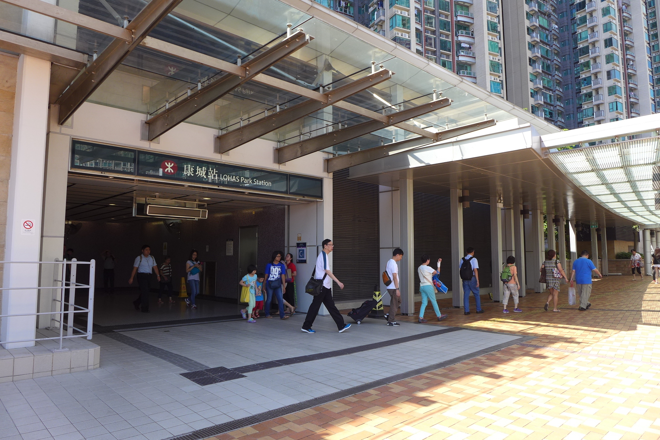 LOHAS Park Station Exit C1